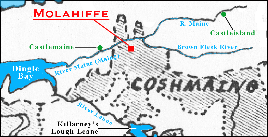 Location of the Gaelic-Irish Lordship of Molahiffe, the castle of which was also the seat of the Ard Tiarnas na Coshmaing, in what is now County Kerry, Ireland